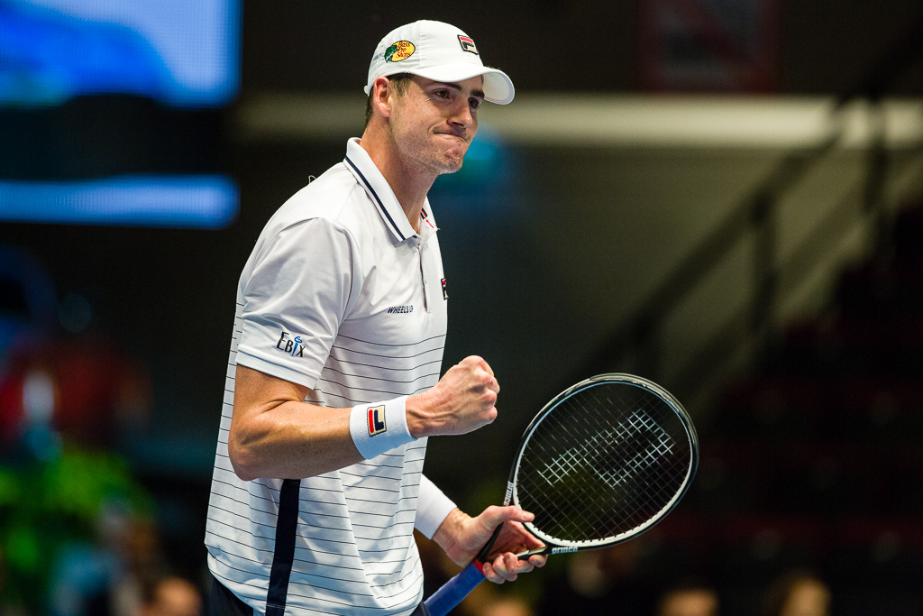 John Isner (USA) vs. Jan-Lennard Struff (GER) 1st Round at Erste Bank Open ATP World Tour 500 in Vienna 24.10.2016